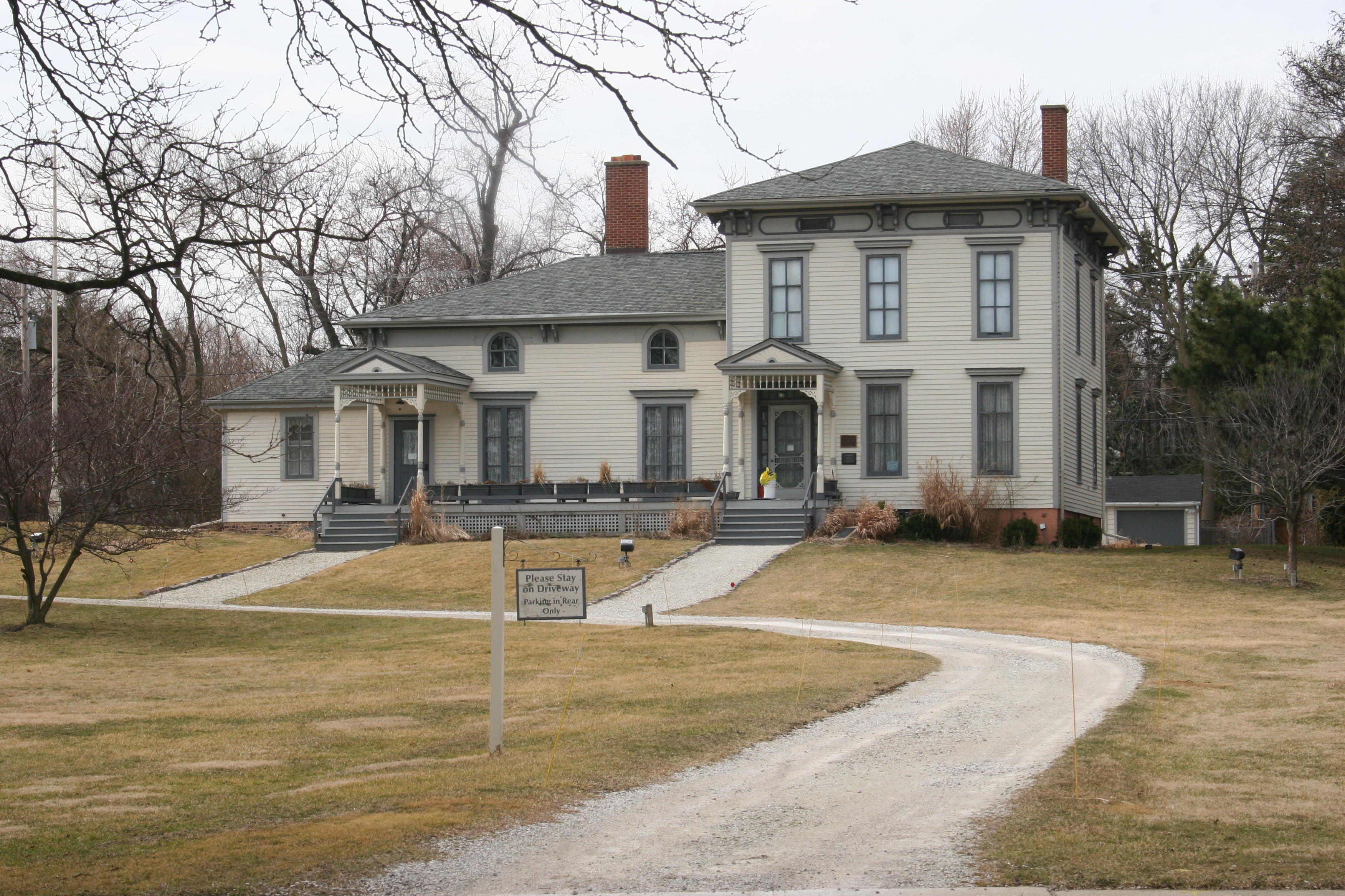 Noble-Seymour-Crippen House in Old Norwood Park, Chicago, IL